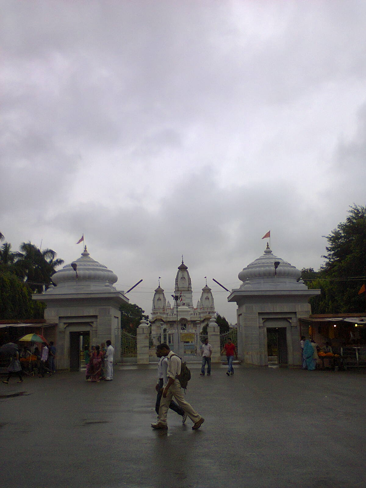 gateway of gorakhnath temple